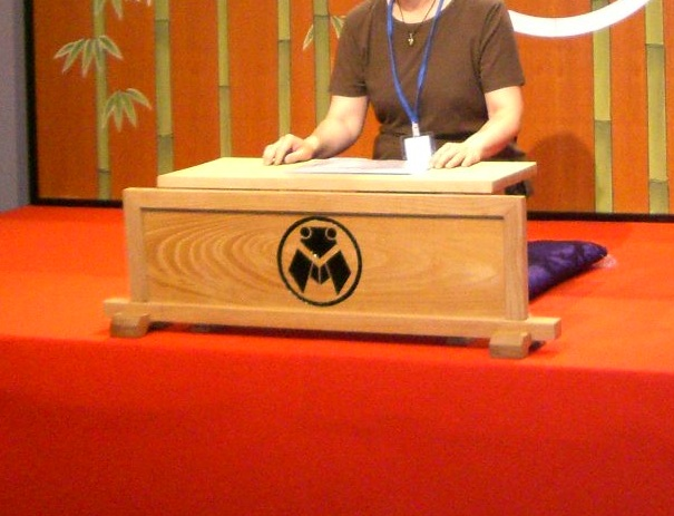 Chiritotechin at NHK Osaka （May, 2009）